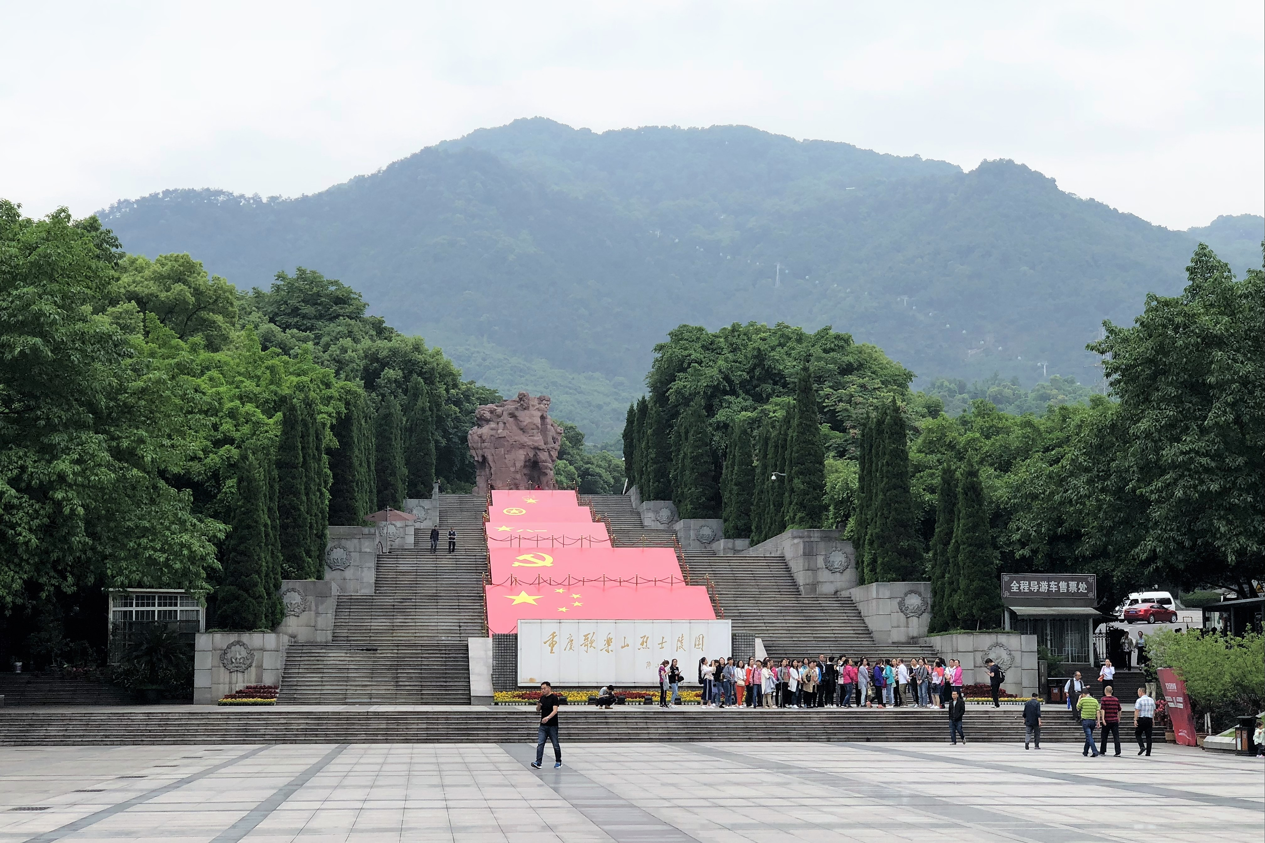 Gele Mountain Revolutionary Martyrs' Cemetery